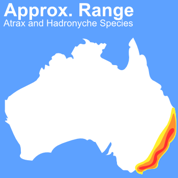 Sketch map indicating the approximate range of venomous funnel-web spiders found in Eastern Australia (New South Wales and Queensland) of the genera Hadronyche and Atrax. Produced on the basis of very general statements regarding the range and some knowledge of the climate and terrain. ( for the specifics regarding envenomation and the generalities regarding range.)